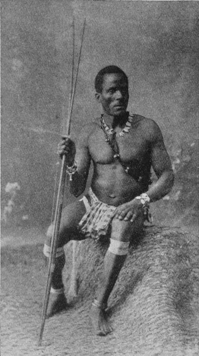 A Bush-Negro of the Saramaka tribe, Dutch Guiana